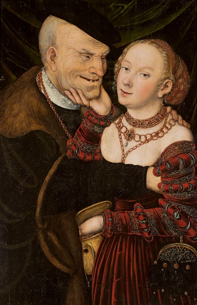 An old man with his much younger "trophy wife". The fact that she has slipped her hand inside his purse leaves no doubt as to the basis of this relationship.